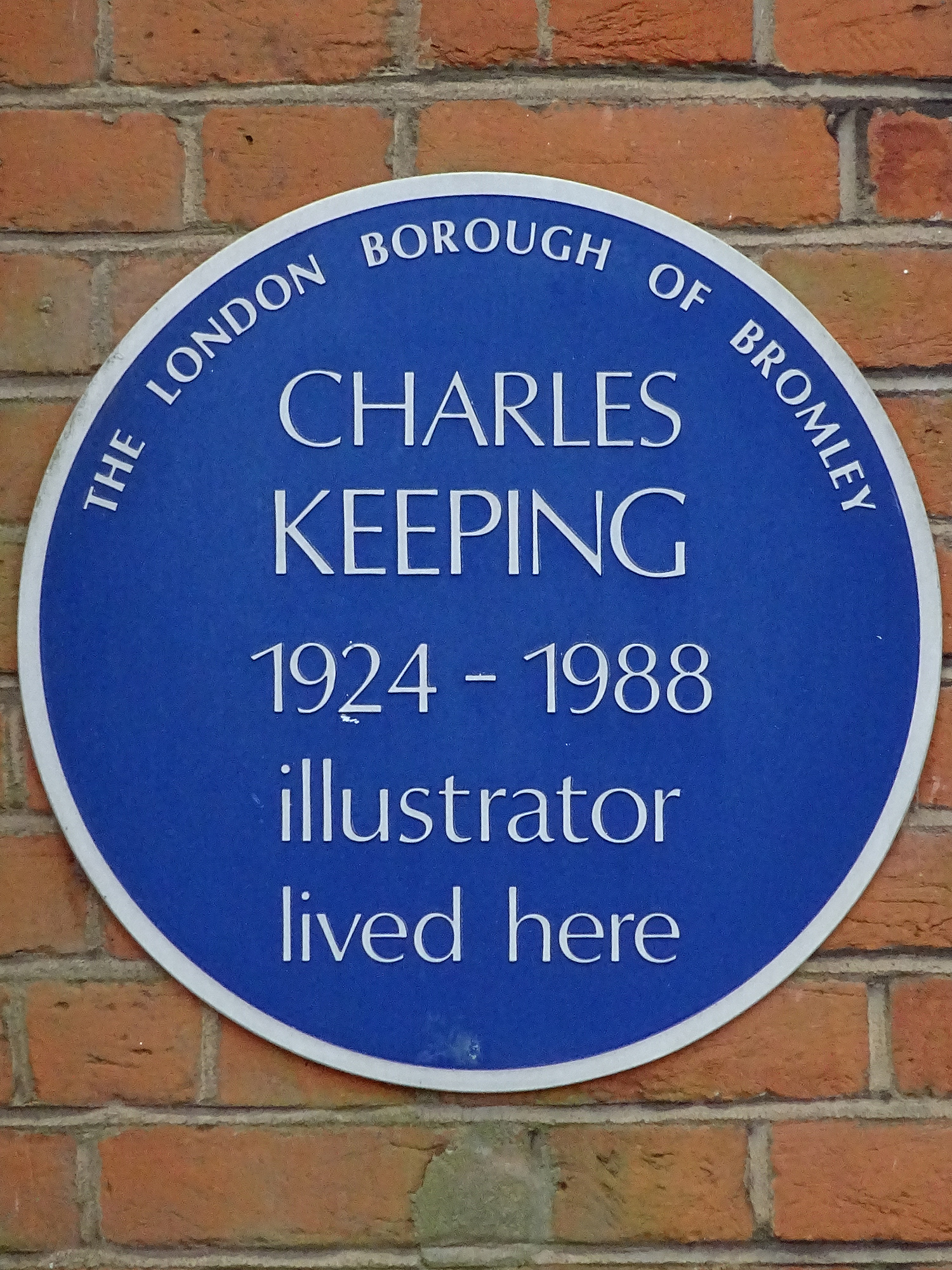 Blue plaque erected by London Borough of Bromley at 16 Church Road, Shortlands BR2 0HP